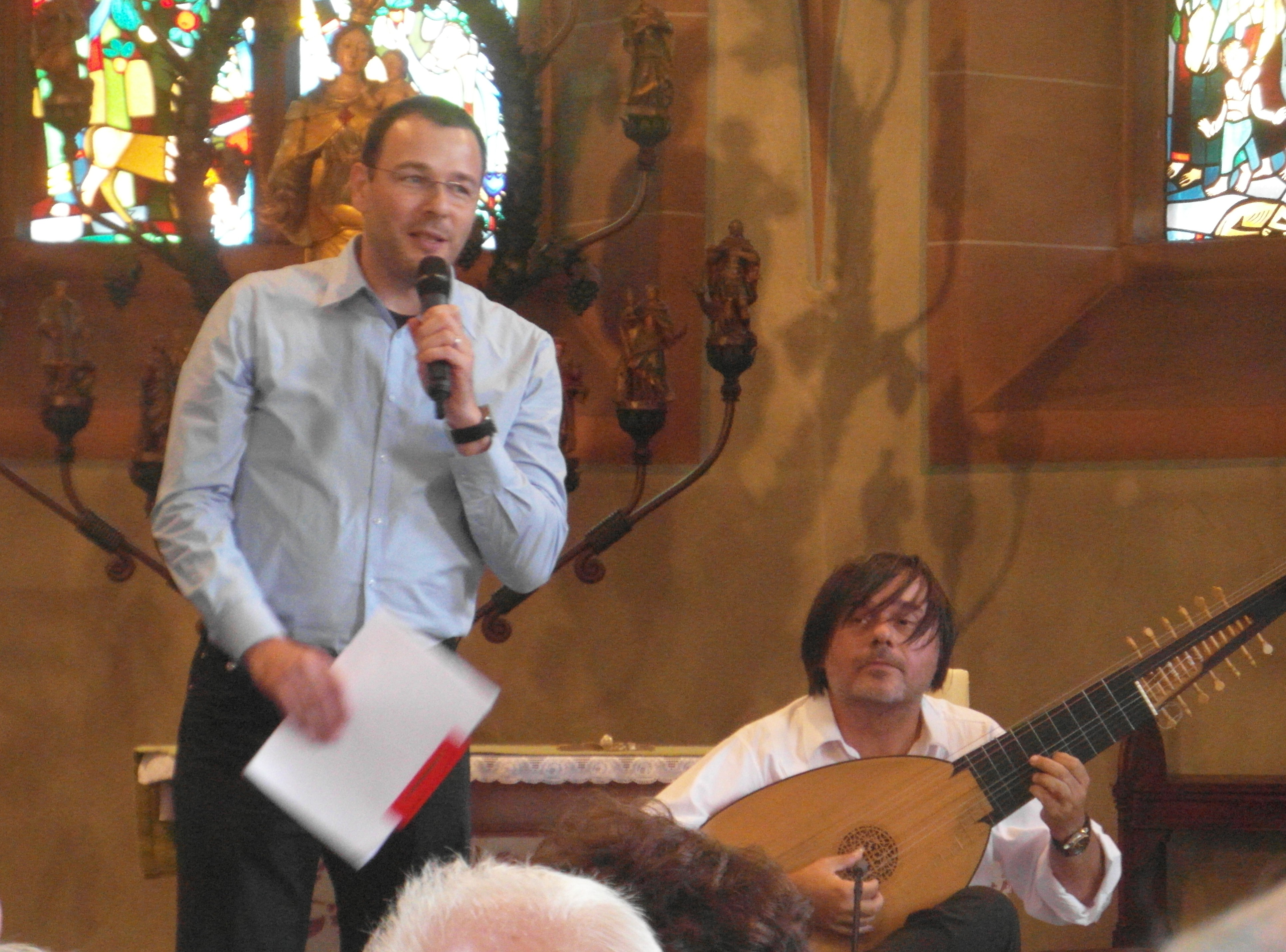 In a concert of the Rheingau Musik Festival on 11 August 2013 in Hallgarten, Andreas Scholl announces a Scottish song, accompanied by Edin Karamazov.